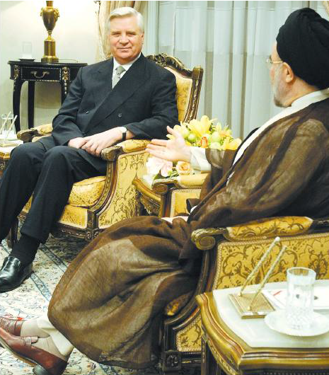 Mohammad Khatami and Anatoliy Zlenko - July 19, 2003